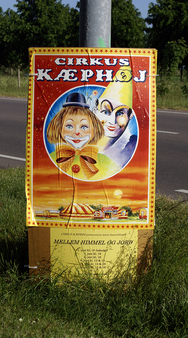 Circus Kæphøj, Holbæk, Denmark. Communiti funded children's circus